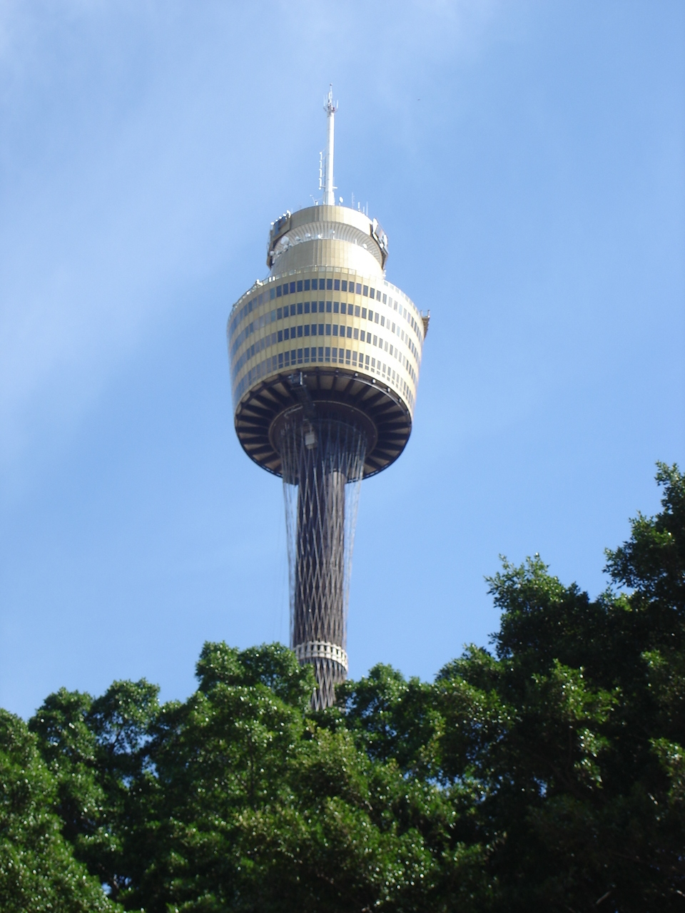 The Top of the AMP Tower in Sydney, NSW, Australia.